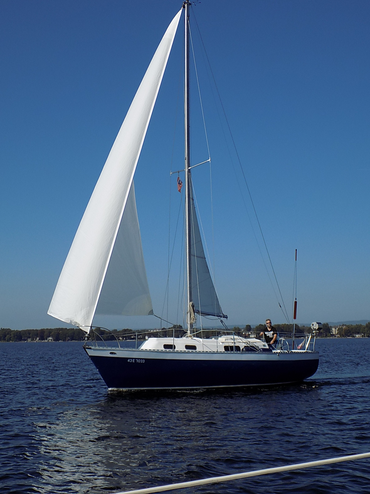 A Grampian 28 sailboat named Mardi Gras II.